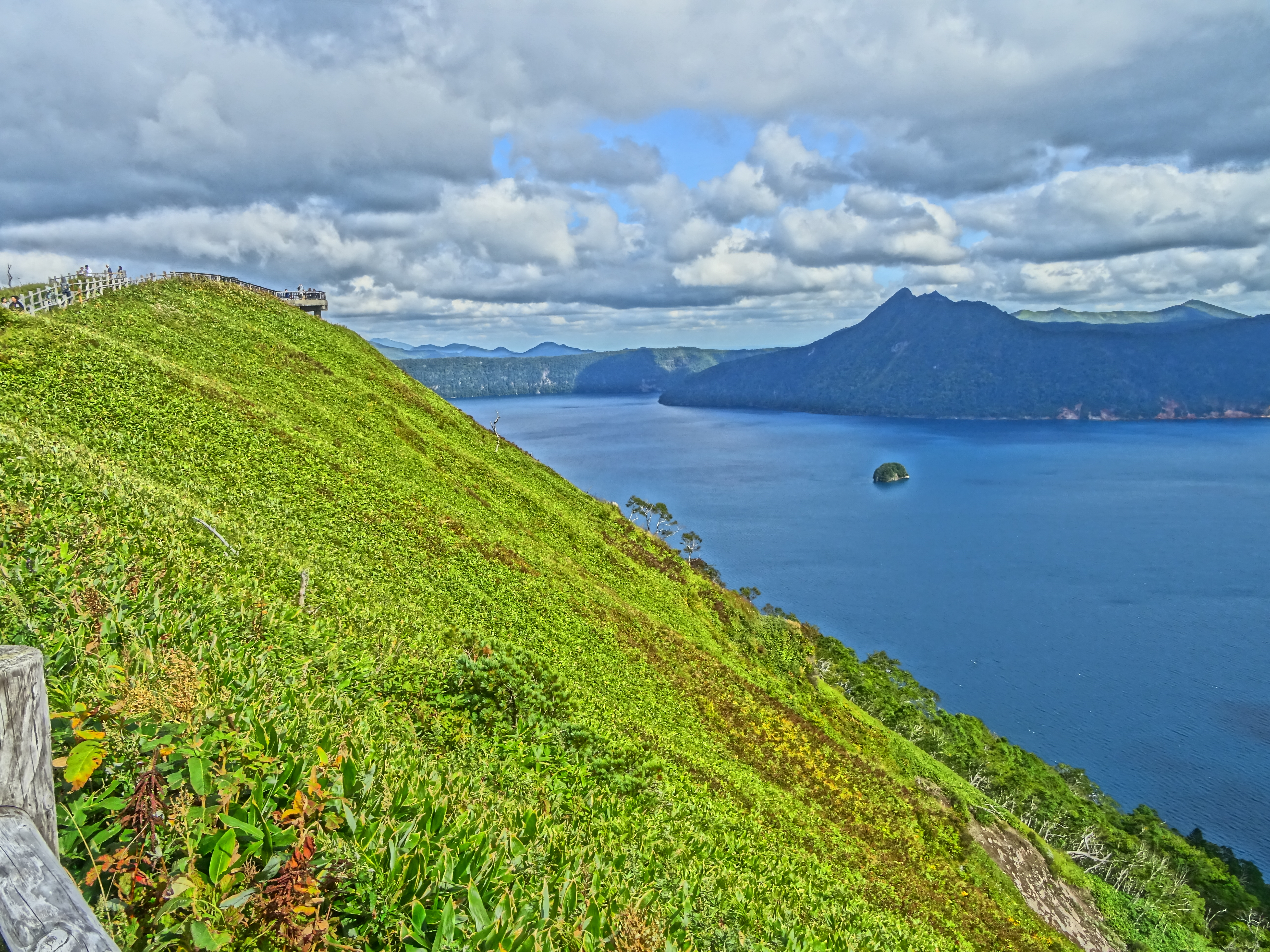 Laka Masshu in Hokkaido (Japan)